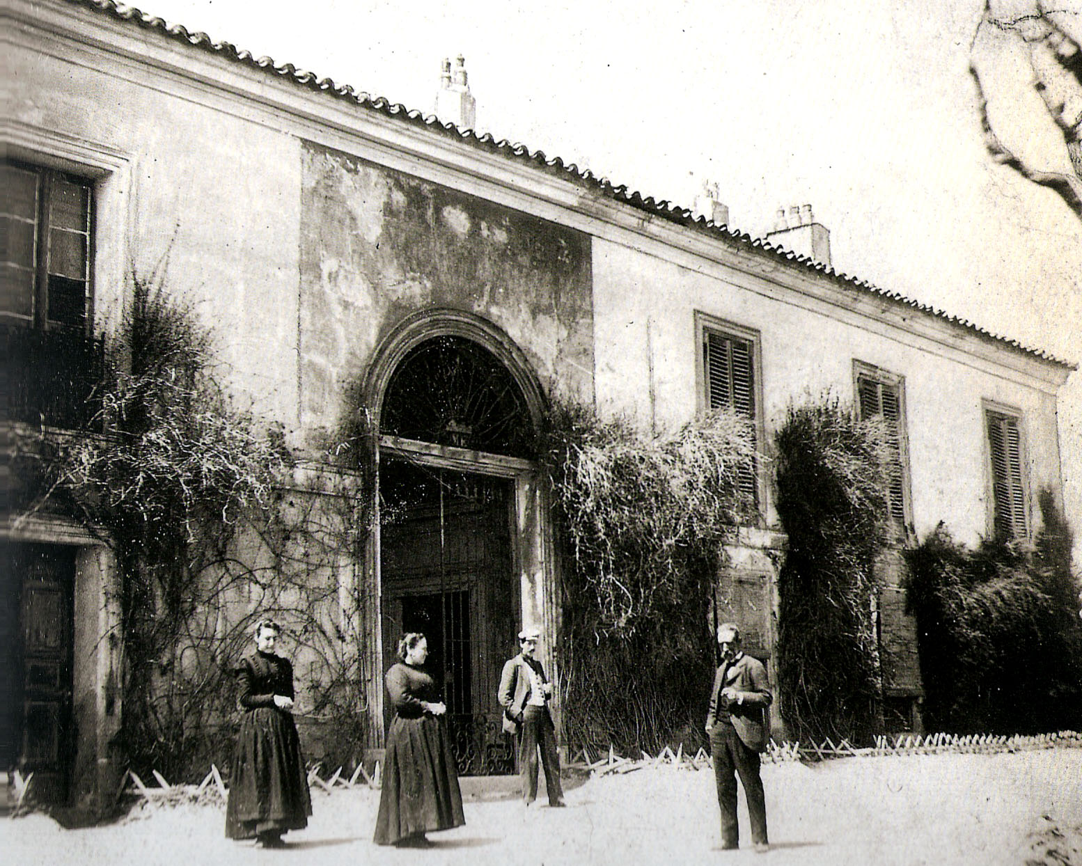 Photograph of Quinta del Sordo, circa 1900.